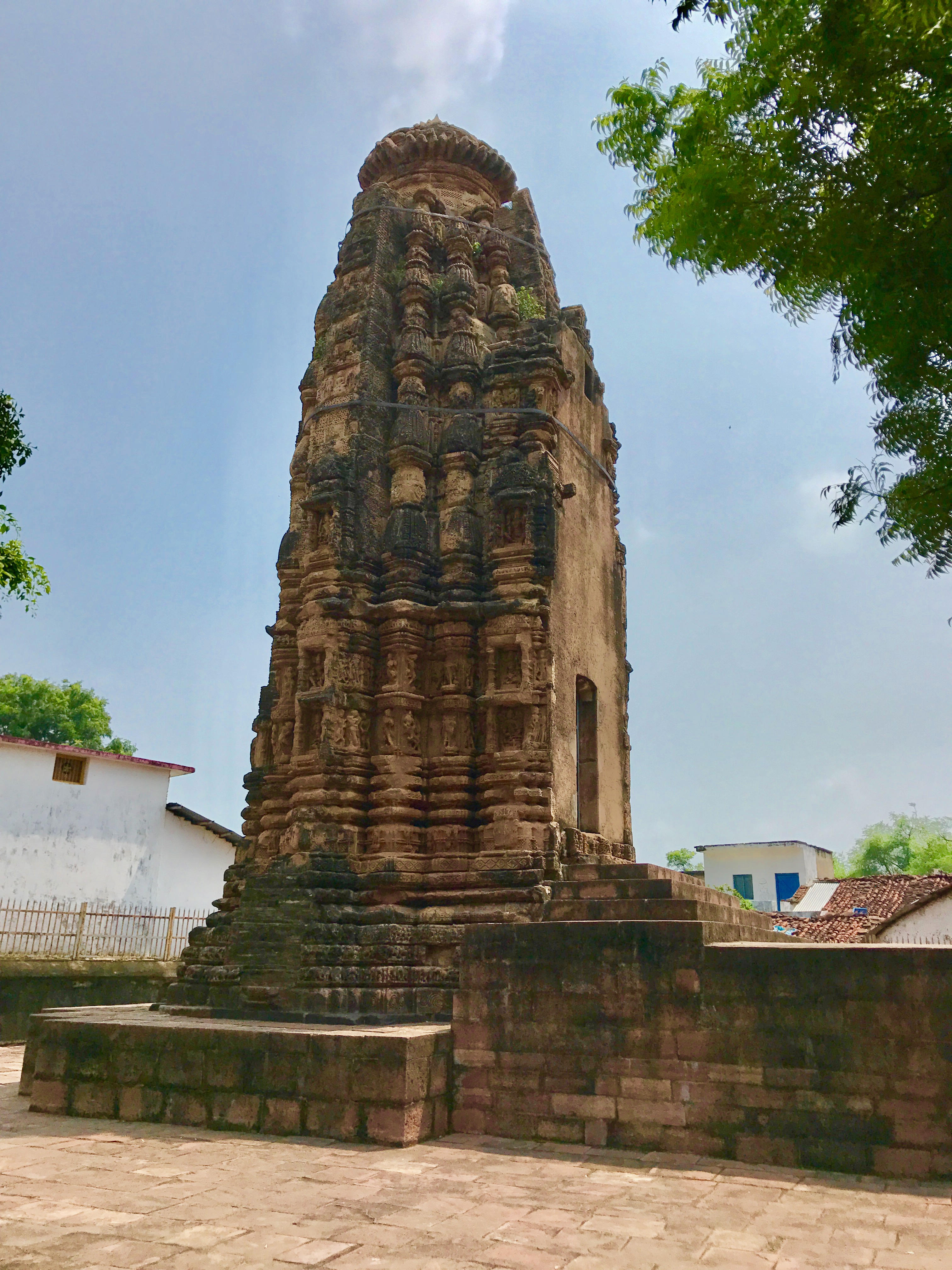 Arang, Chhattisgarh is a small town east of Raipur near Mahanadi river. The region is home to many 7th to 9th century Hindu and Jain temples. They are typically made of brick or stone or a combination. The Bhand Deul Jain temple in Arang is made of brick, though the statues of Tirthankaras inside is made of rock. The brick is intricately carved which has weathered over time. The temple also shows signs of intentional damage. The carvings show kama scenes, dancers and musicians. The lower layers have rows of horses and elephants. It was likely built in the 9th century during the Haihaya dynasty.